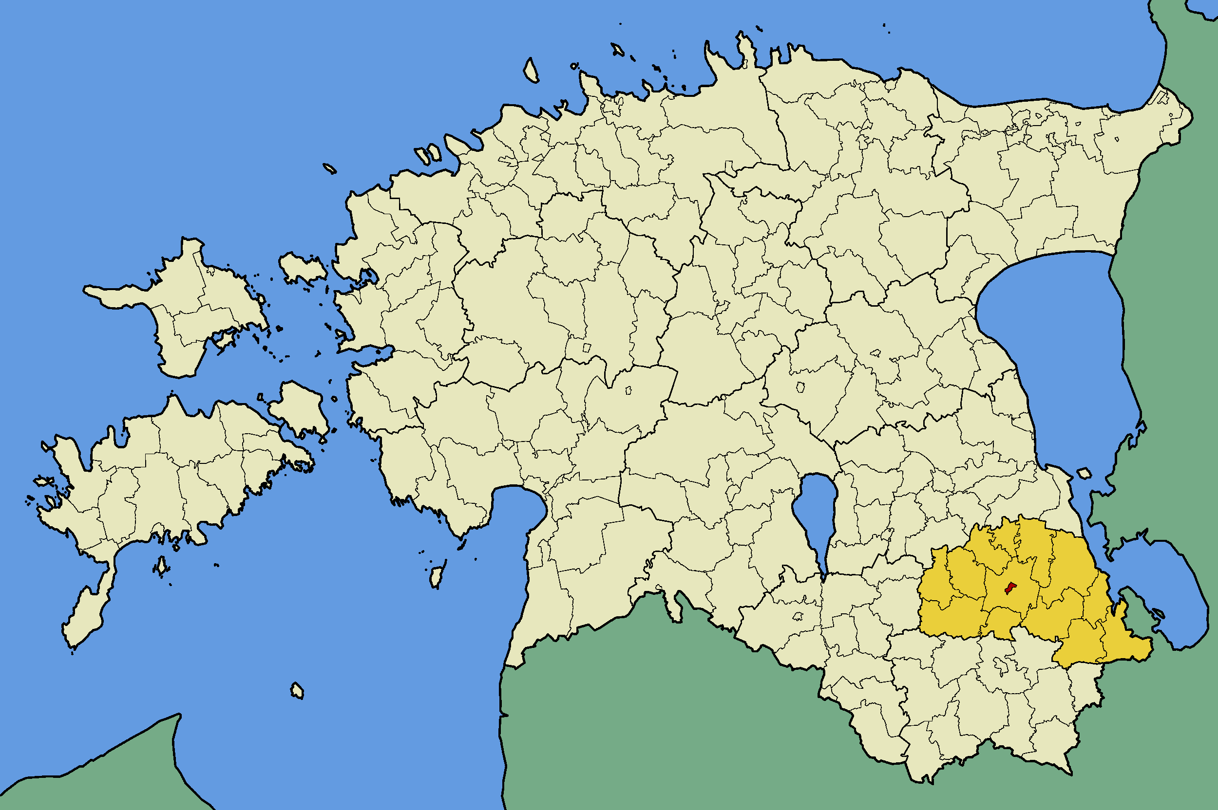 Map of Estonia with borders of municipalities (parishes). Põlva county and Põlva town municipality emphasized.